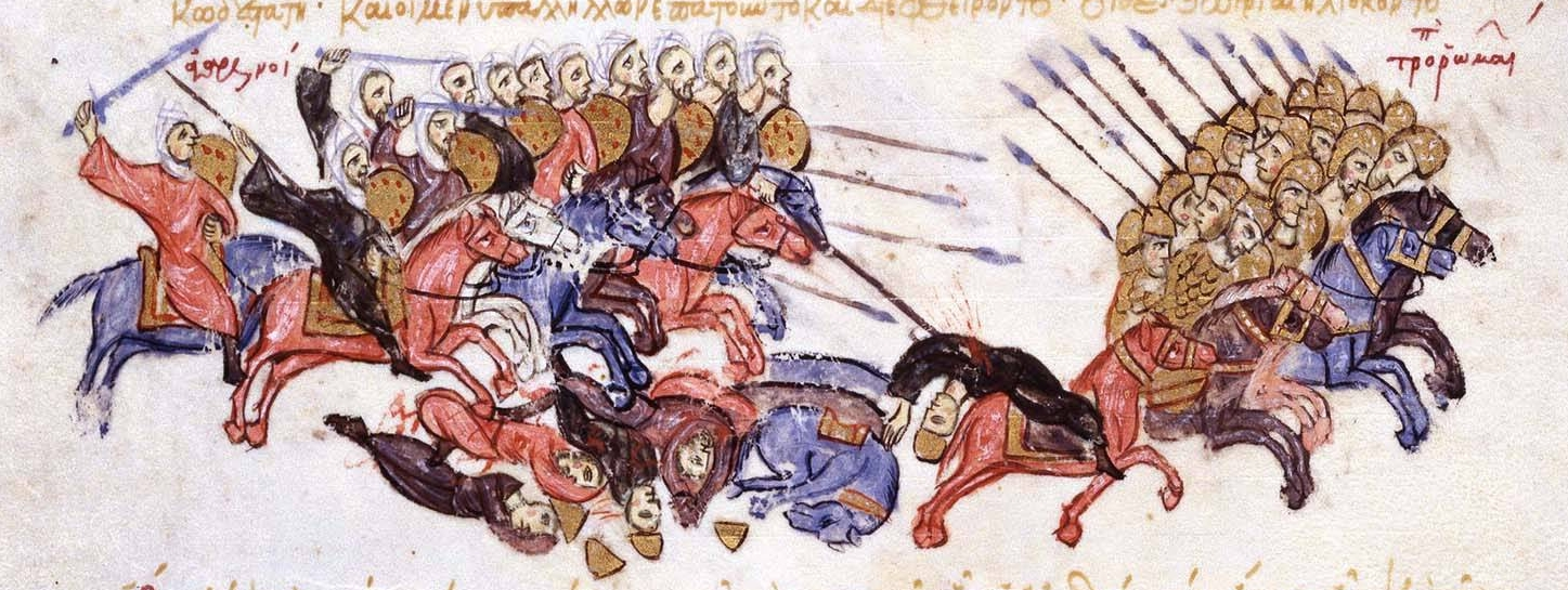 The Arabs drive the Byzantines to flight at Azazion